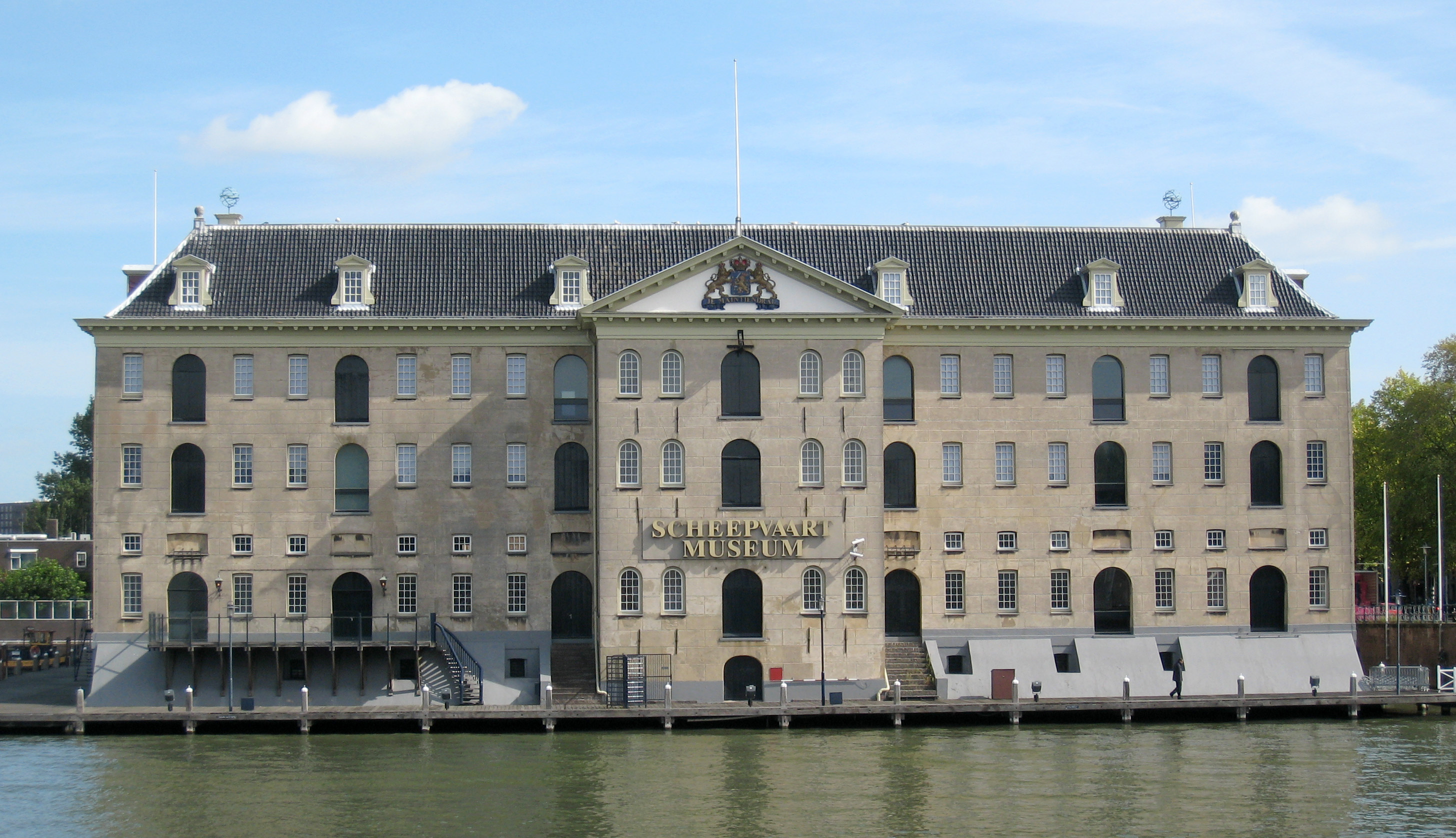 The Nederlands Scheepvaartmuseum (Netherlands Maritime Museum) is a museum in Amsterdam, The Netherlands.